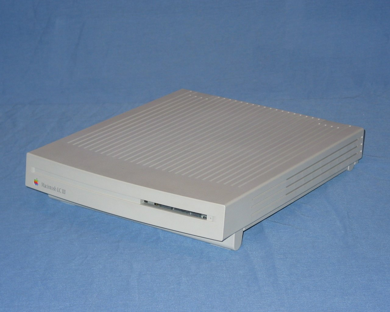 Front view of a Macintosh LC III